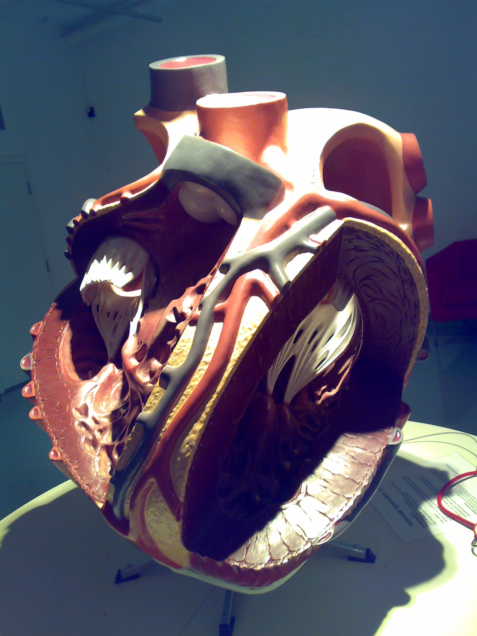 heart model, Oslo